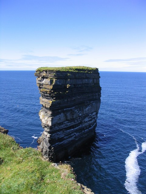 Downpatrick Head